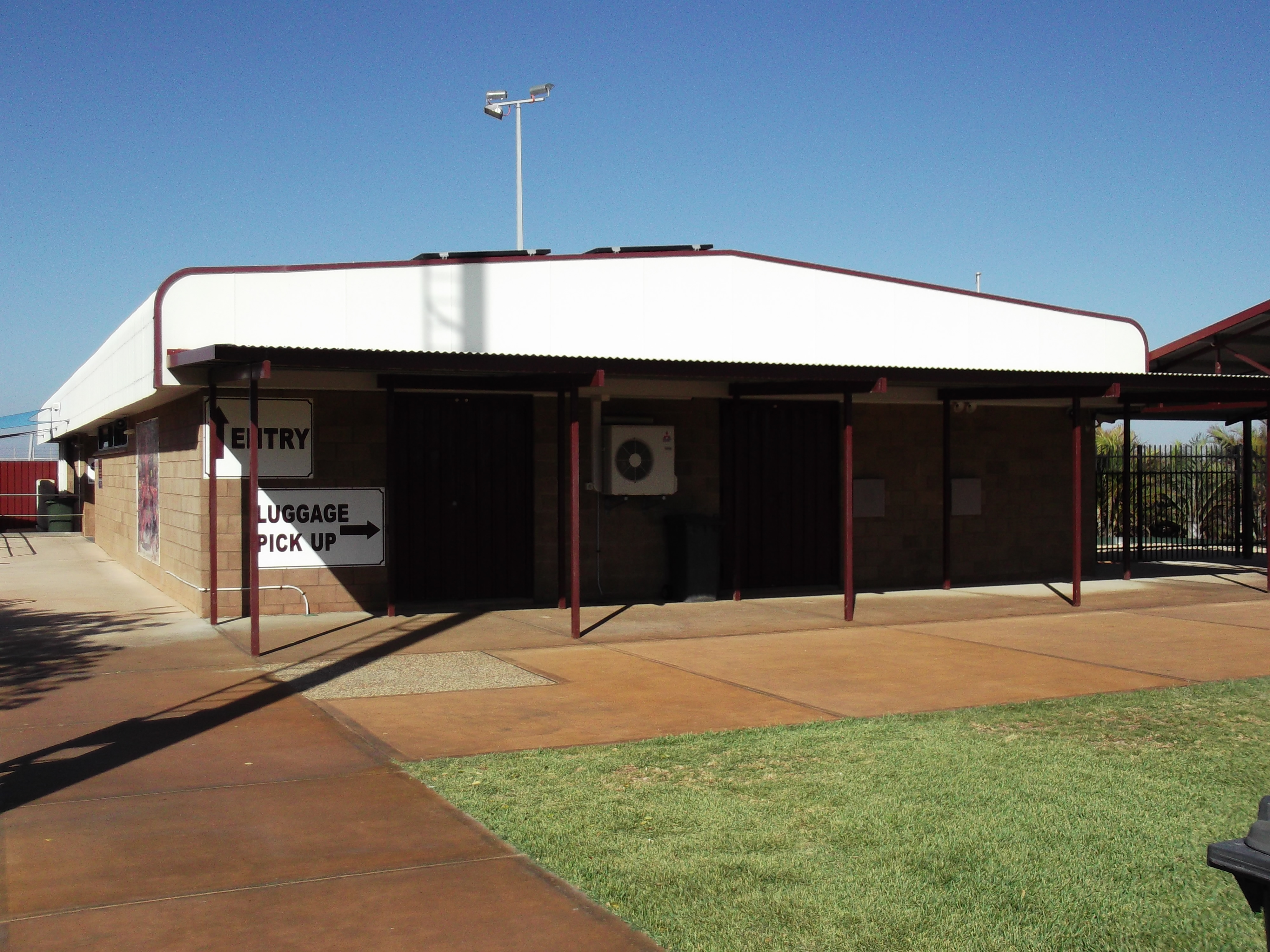 The exterior of a the terminal building of the Carnarvon Airport passenger terminal in Carnarvon, Western Australia